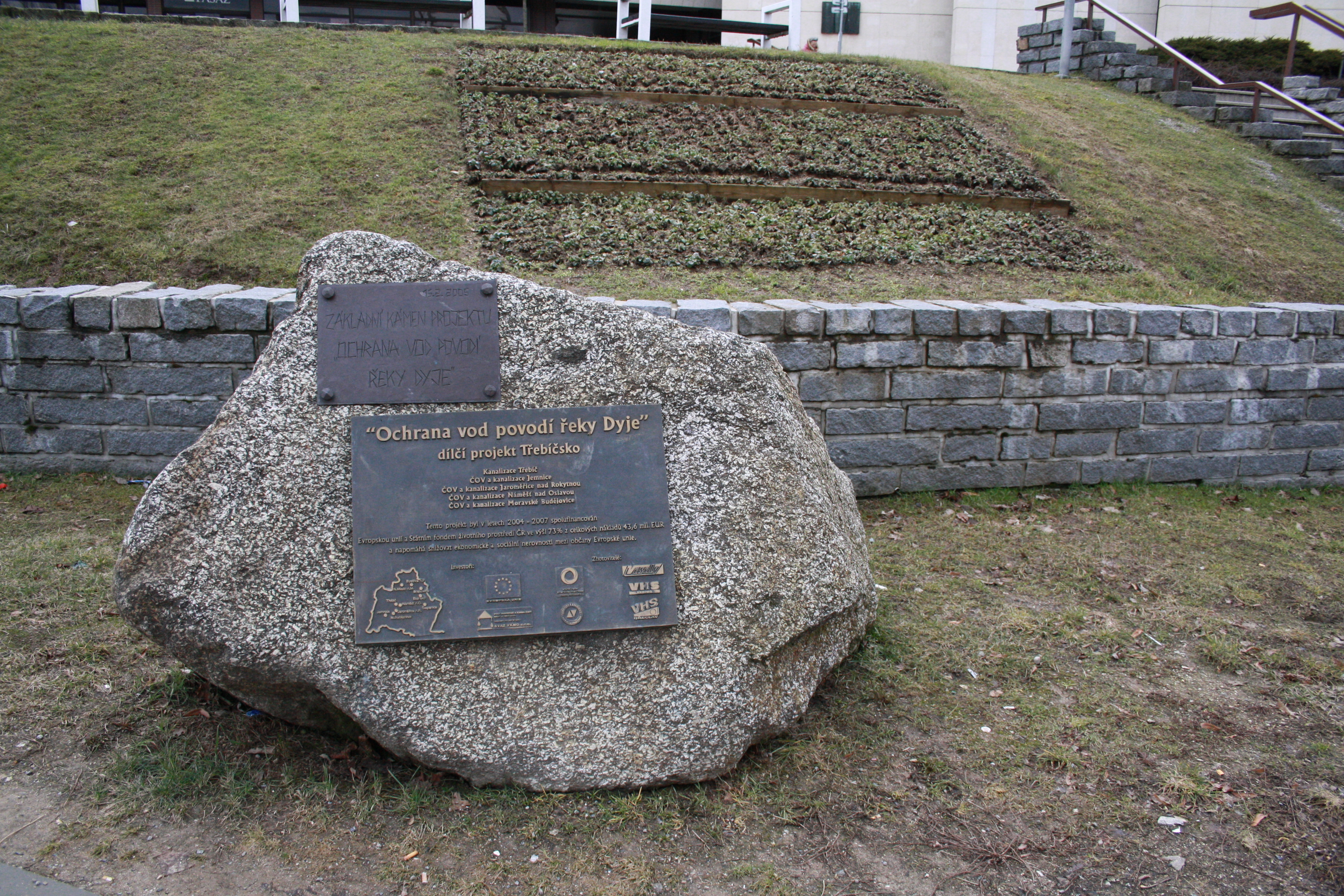 Foundation stone of european union programme Dyje clean river.